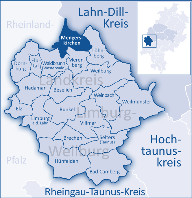 The map shows a district in the area of Limburg-Weilburg